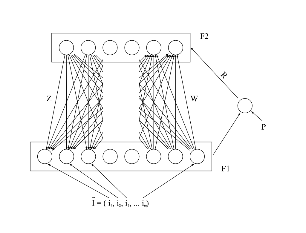 Adaptive Resonance Theory, basic Structure